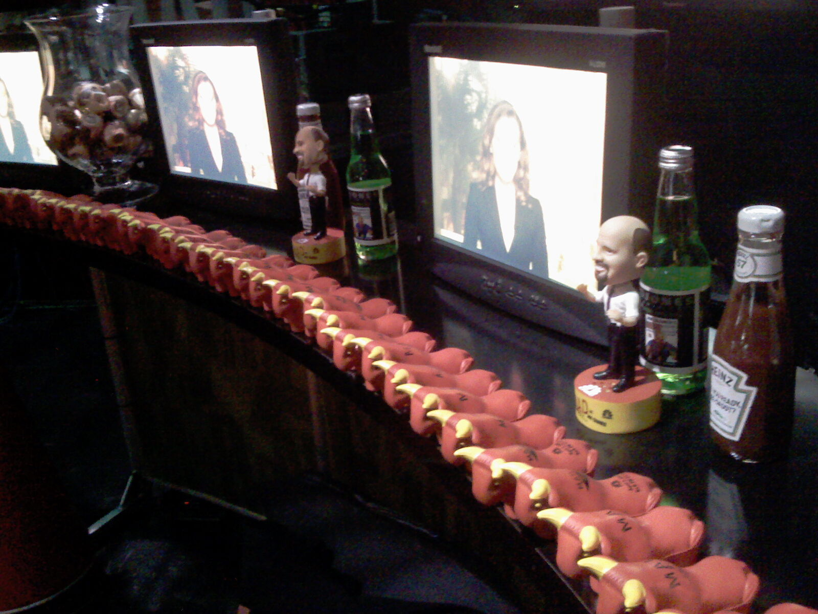 Mad Money Set